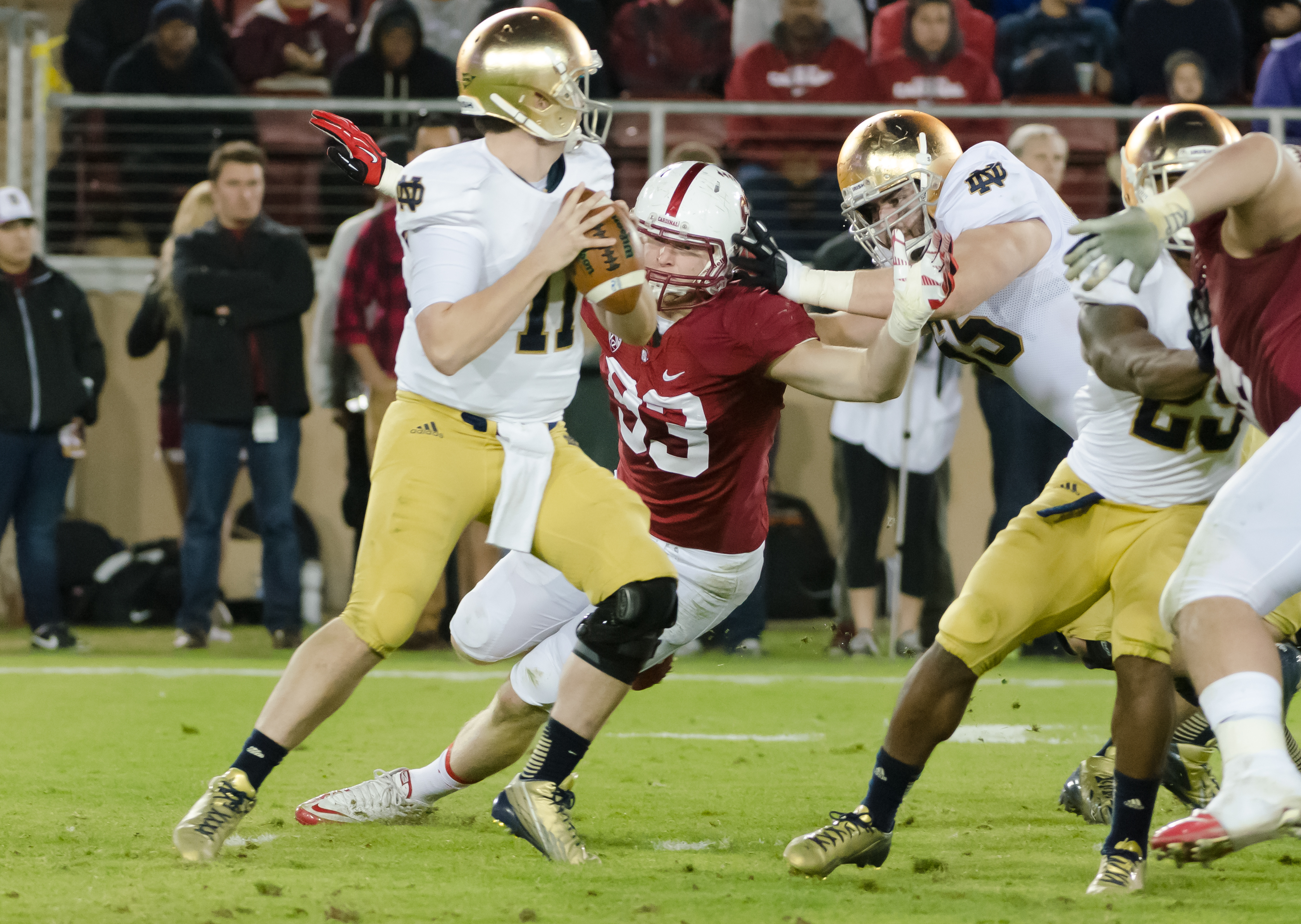 Notre Dame at Stanford, November 2013